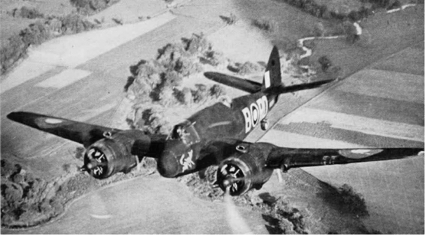 A Bristol Beaufighter Mk IF of No. 29 Squadron, Royal Air Force. No. 29 Squadron received the Beau in November 1940 and operated it until May 1943 as a defensive night fighter unit. The squadron was based at RAF Wellingore, Lincolnshire (UK) from 8 July 1940 to 27 April 1941, and at RAF West Malling, Kent (UK), from 27 April 1941 to 13 May 1943.